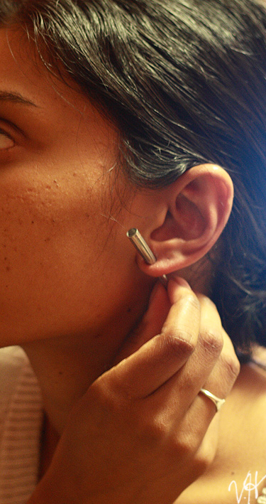 Stretching a lobe piercing